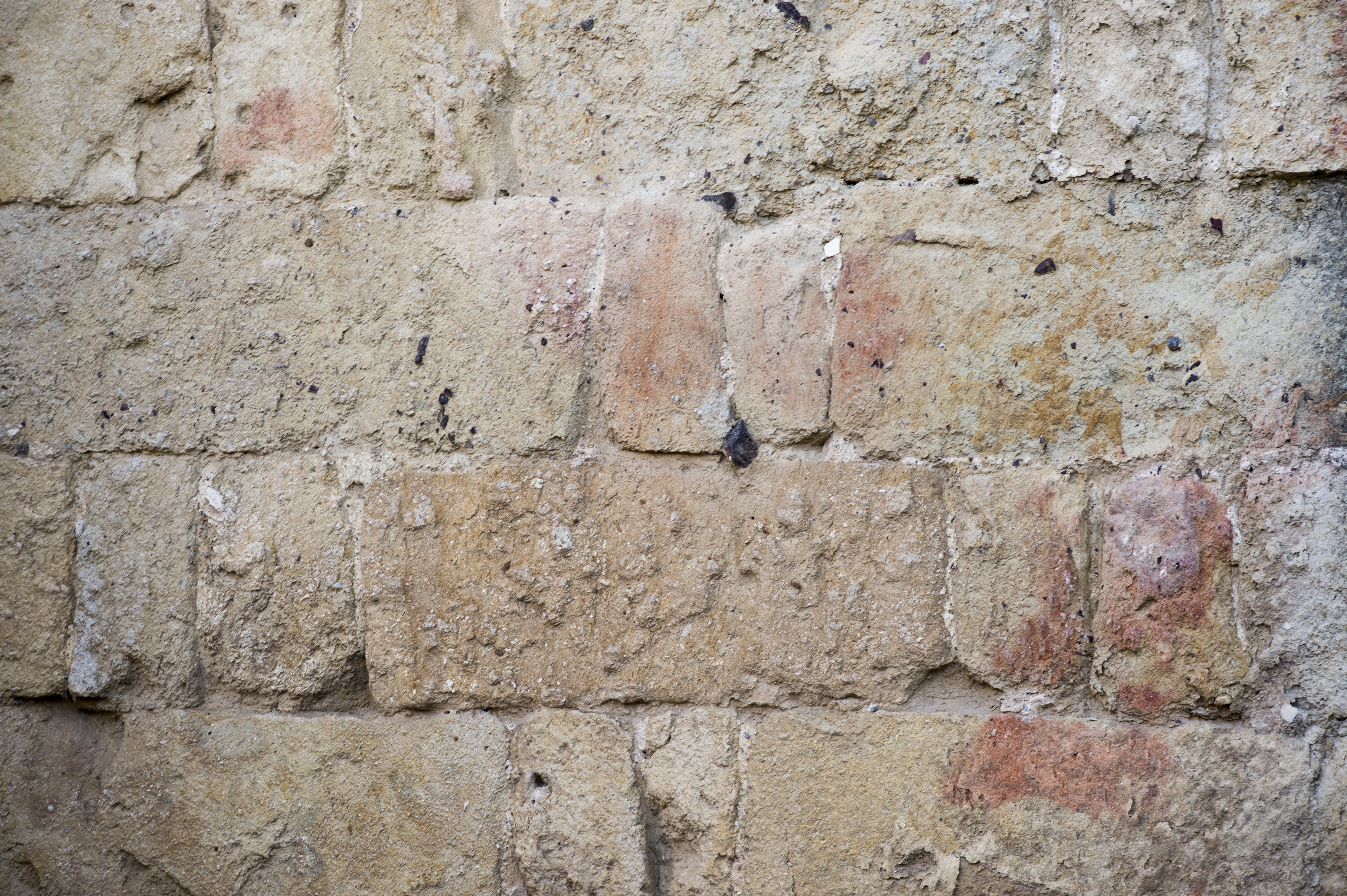 Stone construction style by alternating the longitudinal axis position of blocks